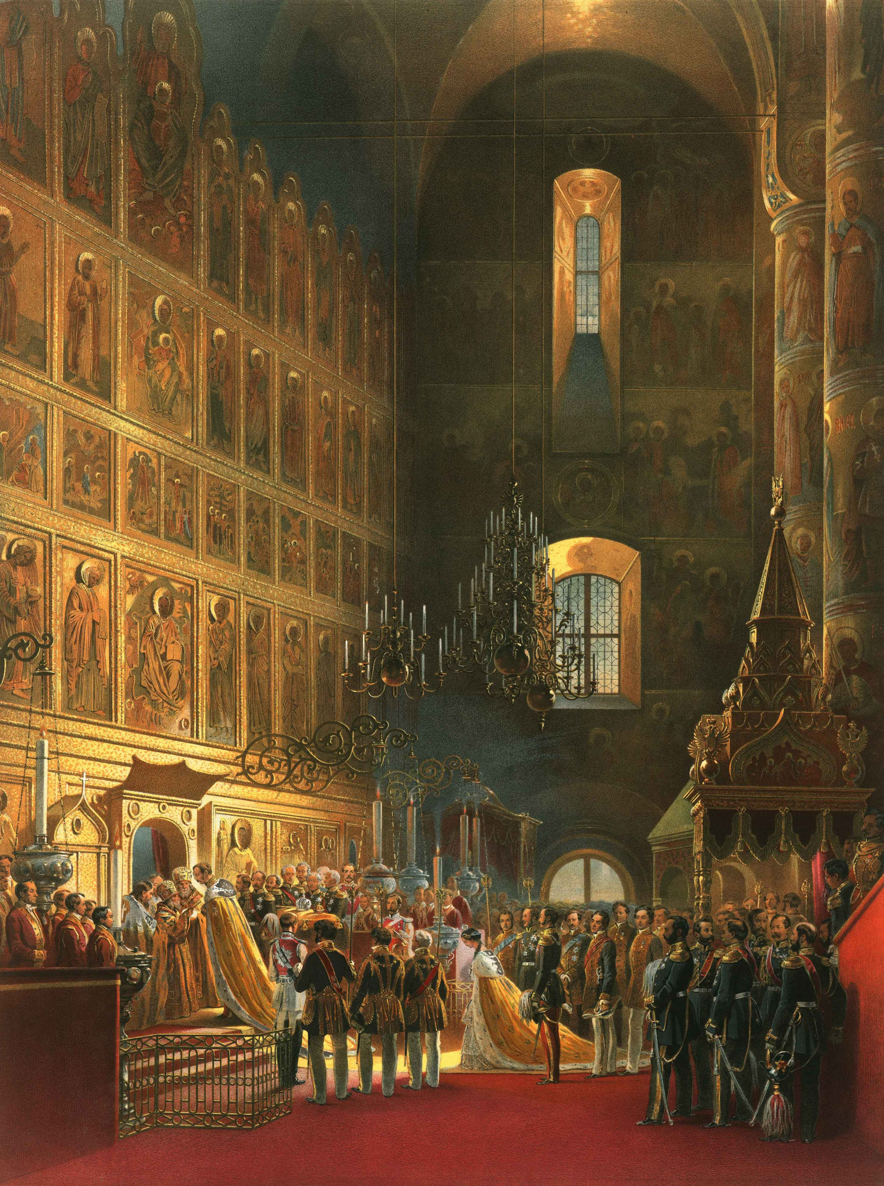 Anointing of Alexander II. / Myronsalbung Alexanders (Chromolithographie)